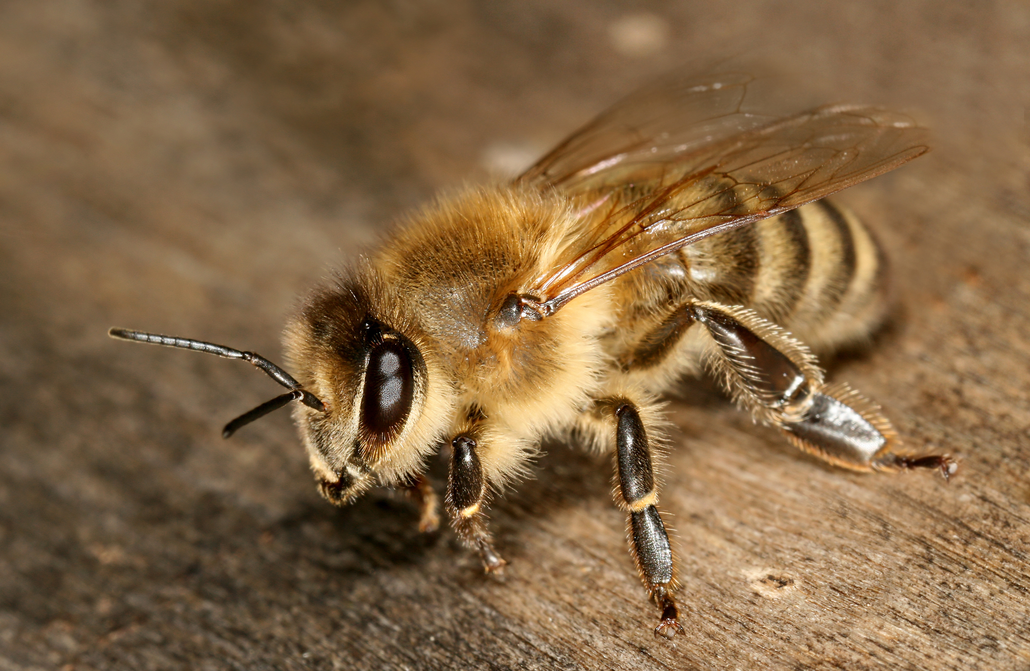 Description: The Carniolan honey bee (Apis mellifera carnica) is a subspecies of Western honey bee. It originates from Slovenia, but can now be found also in Austria, part of Hungary, Romania, Croatia, Bosnia and Herzegovina, and Serbia.